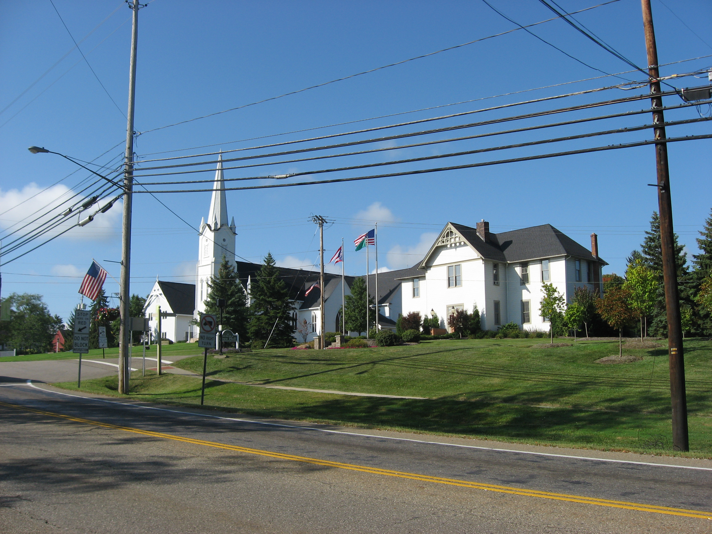 Buildings on the western side of the old center of the city of Aurora, Ohio, United States: The Church in Aurora to the left, and the Aurora Town Hall to the right. Located along S. Chillicothe Road (State Route 306), the buildings are part of the Aurora Center Historic District, which is listed on the National Register of Historic Places.